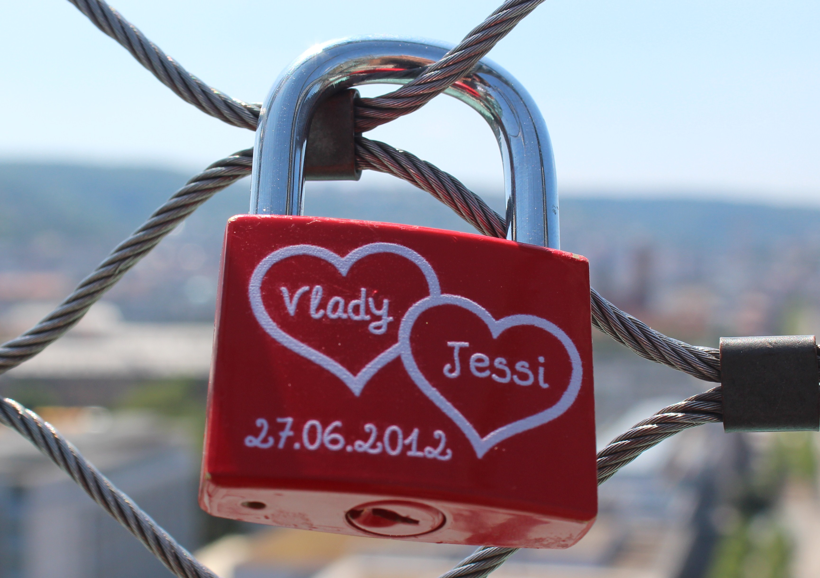 Love padlock, Stuttgart, Germany